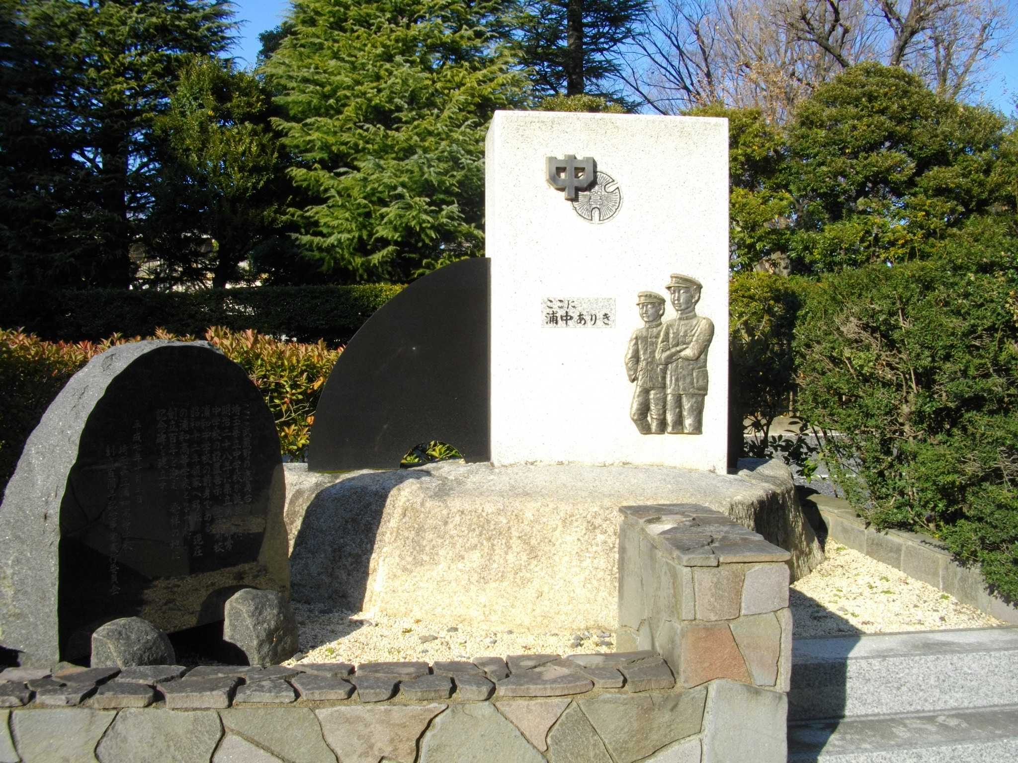 Urawa Middle School monument